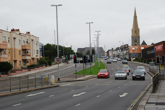 The A374 into Plymouth This was taken from near the Sutton Road Traffic Lights, looking towards Cattdown Roundabout. Exeter Street the A374 is one of the main routes into Plymouth.